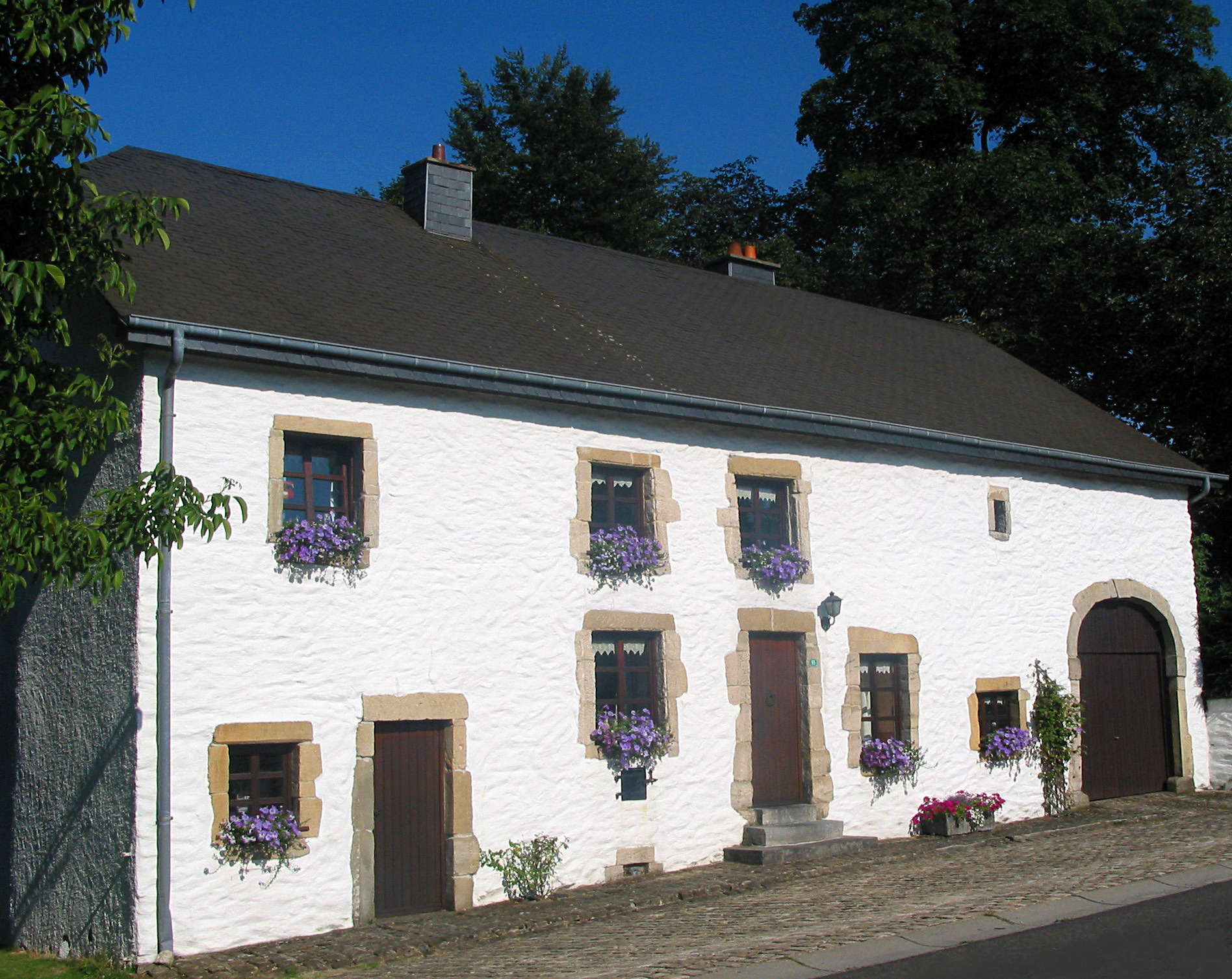 Nobressart (Belgium), typical farmhouse of the area.